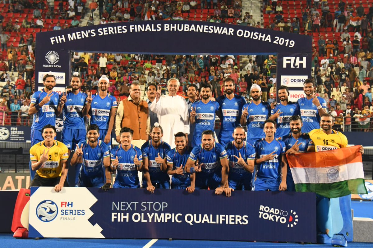 Tweet Text: Congratulate Team India for their spectacular win over South Africa to clinch the trophy in #FIHSeriesFinals at #KalingaStadium #Bhubaneswar. I wish both teams success in the forthcoming qualifiers for #Tokyo2020 Olympics. 🇮🇳 #INDvRSA🇿🇦 RoadToTokyo